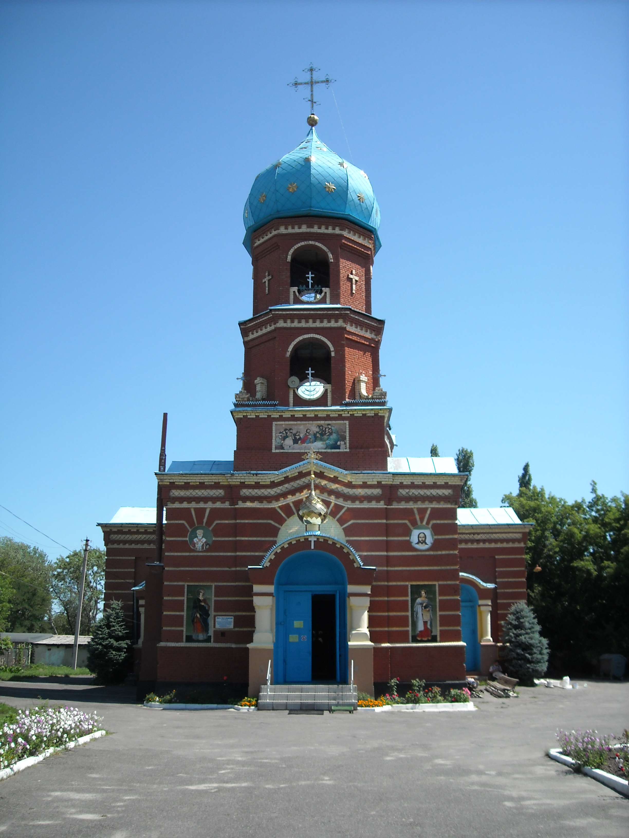 Shchastia sity.Luhansk state. Ukraine